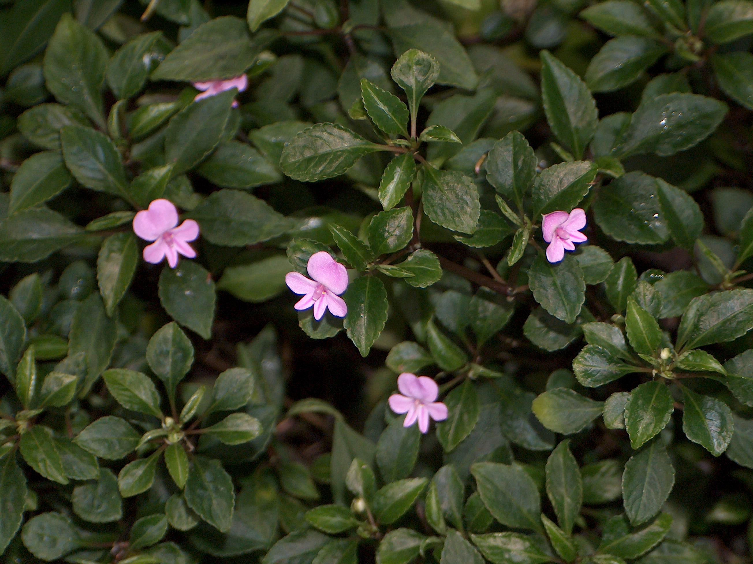 Flowers and Leaves of Impatiens pseudoviola Gilg.